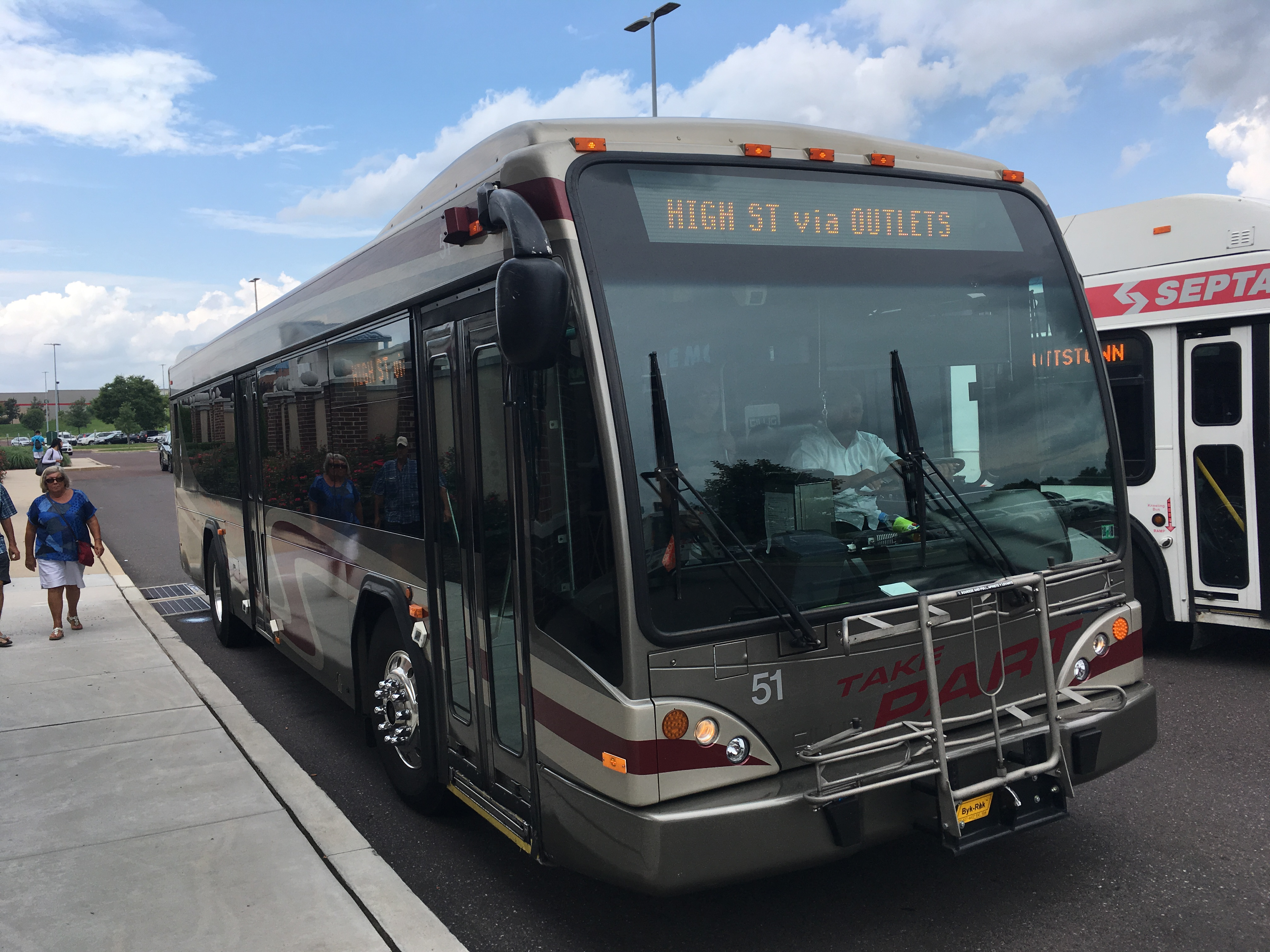 Pottstown Area Rapid Transit (PART) Gillig BRT bus #51 on the High Street via Philadelphia Premium Outlets line at the Philadelphia Premium Outlets in Limerick Township, Pennsylvania